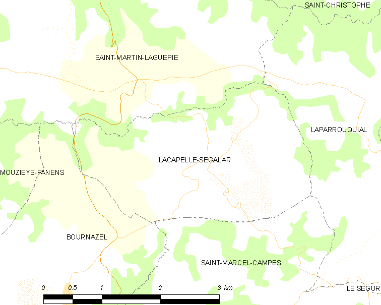 Map of French municipality Lacapelle-Ségalar